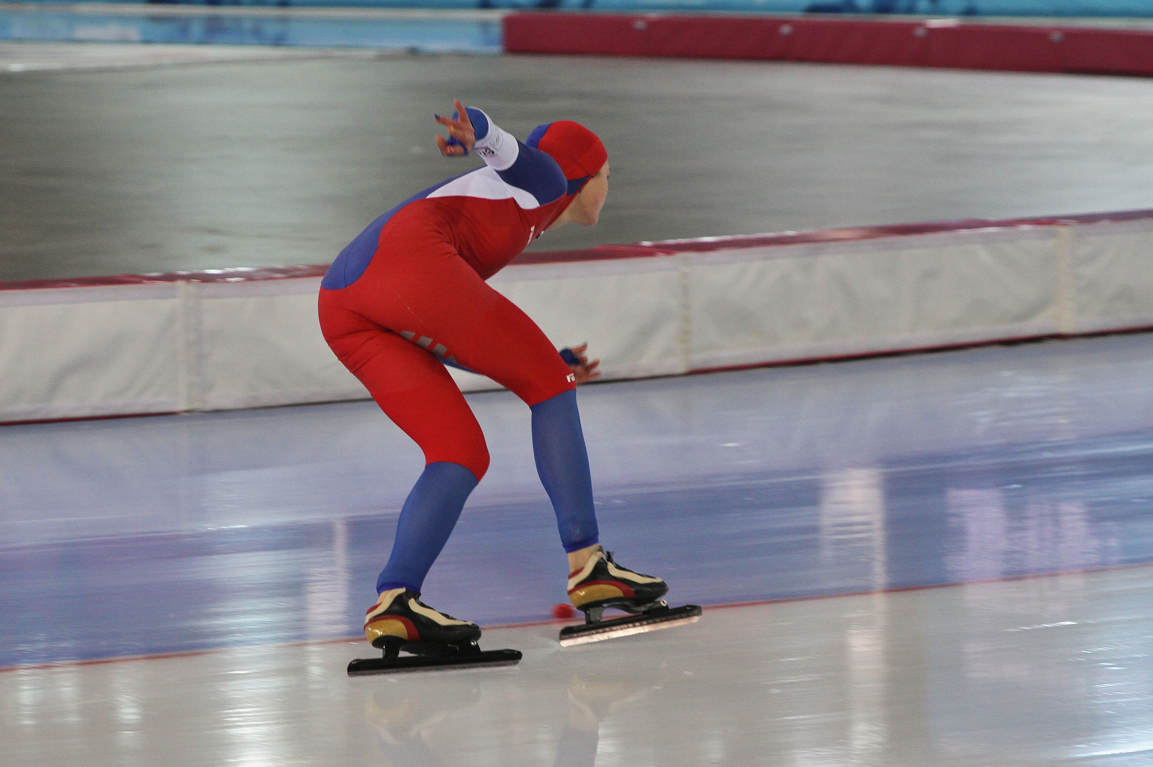 Lillehammer 2016 - Speed skating Ladies' 500m race 2 - Mihaela Hogas